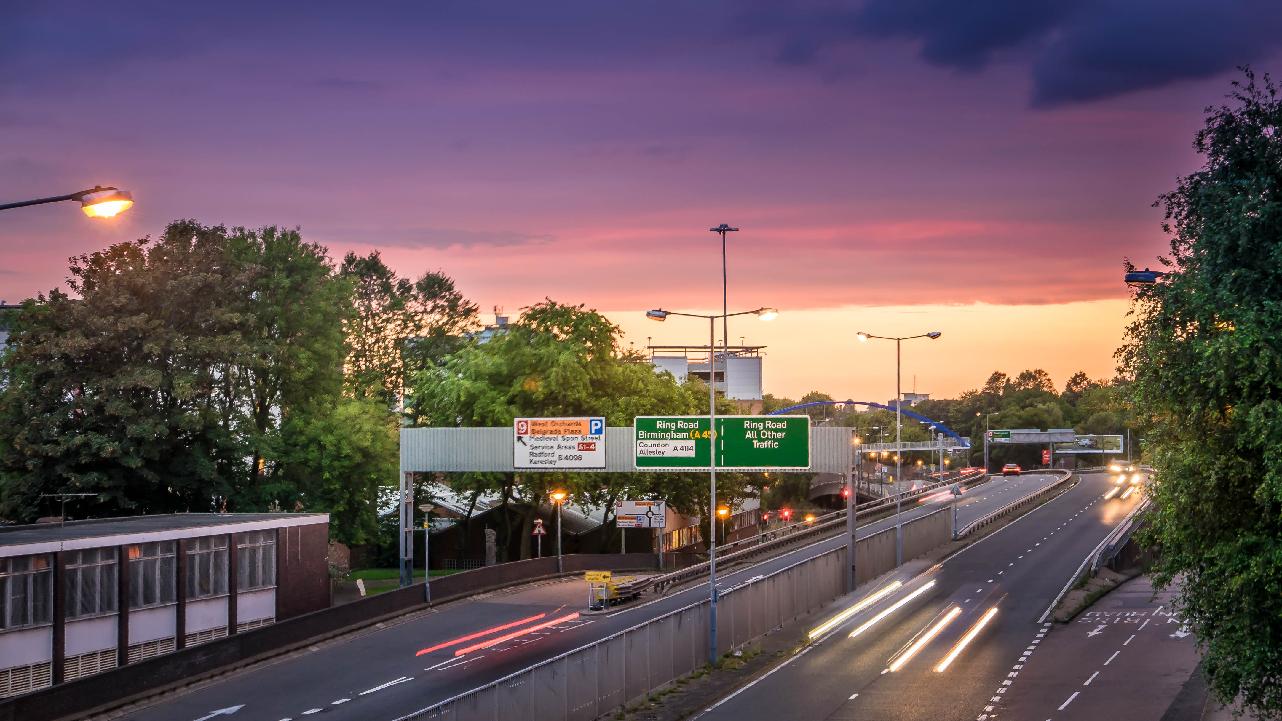 Coventry's inner Ring Road photographed from the Canal Basin pedestrian footbridge looking West.